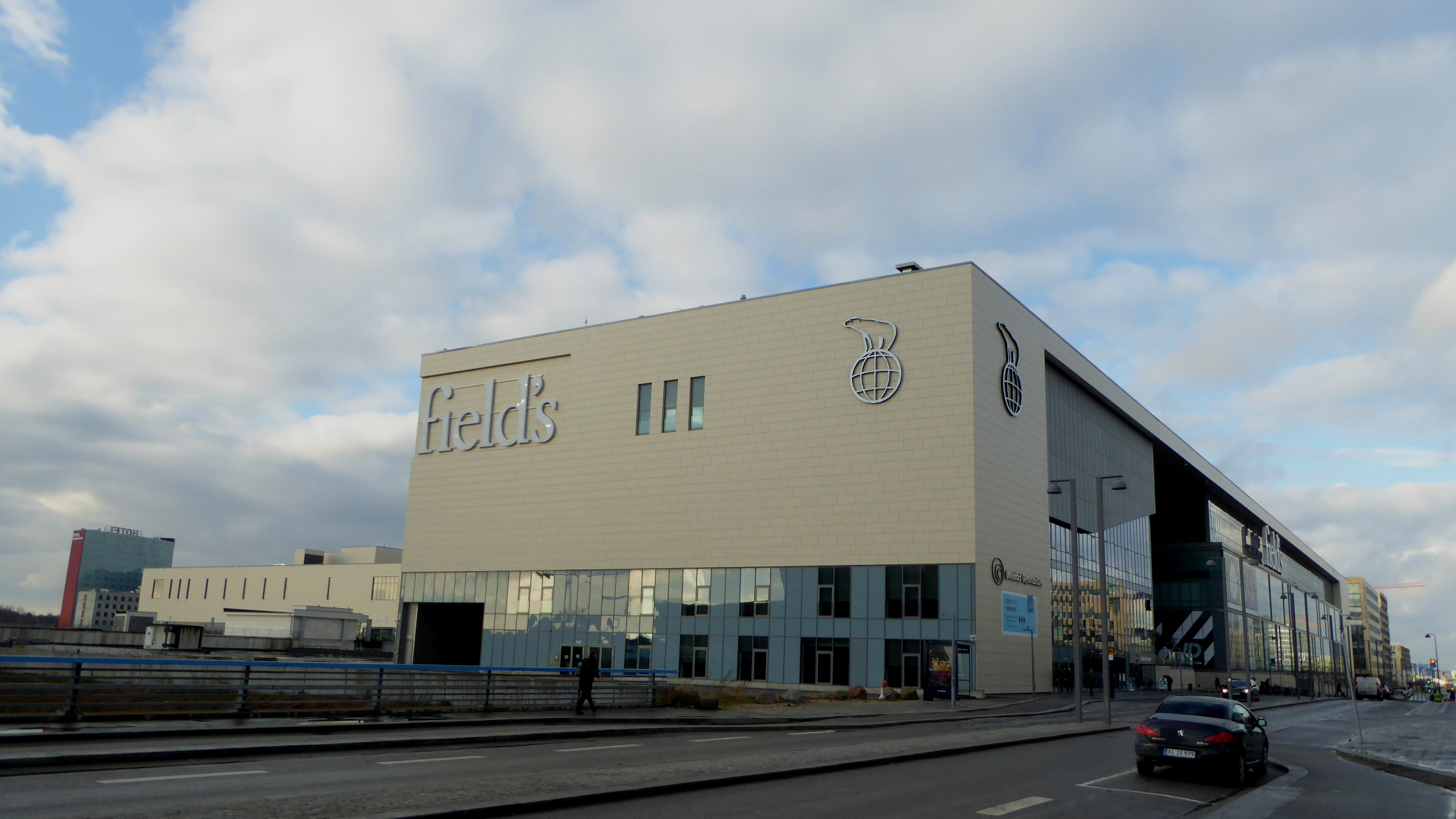 The shopping mall Field's at Ørestads Boulevard in Ørestad in Copenhagen.